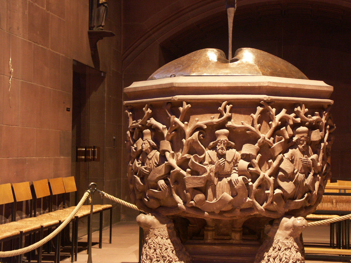 Cathedral St. Peter (Dom St. Peter), Worms, Germany - Baptismal font